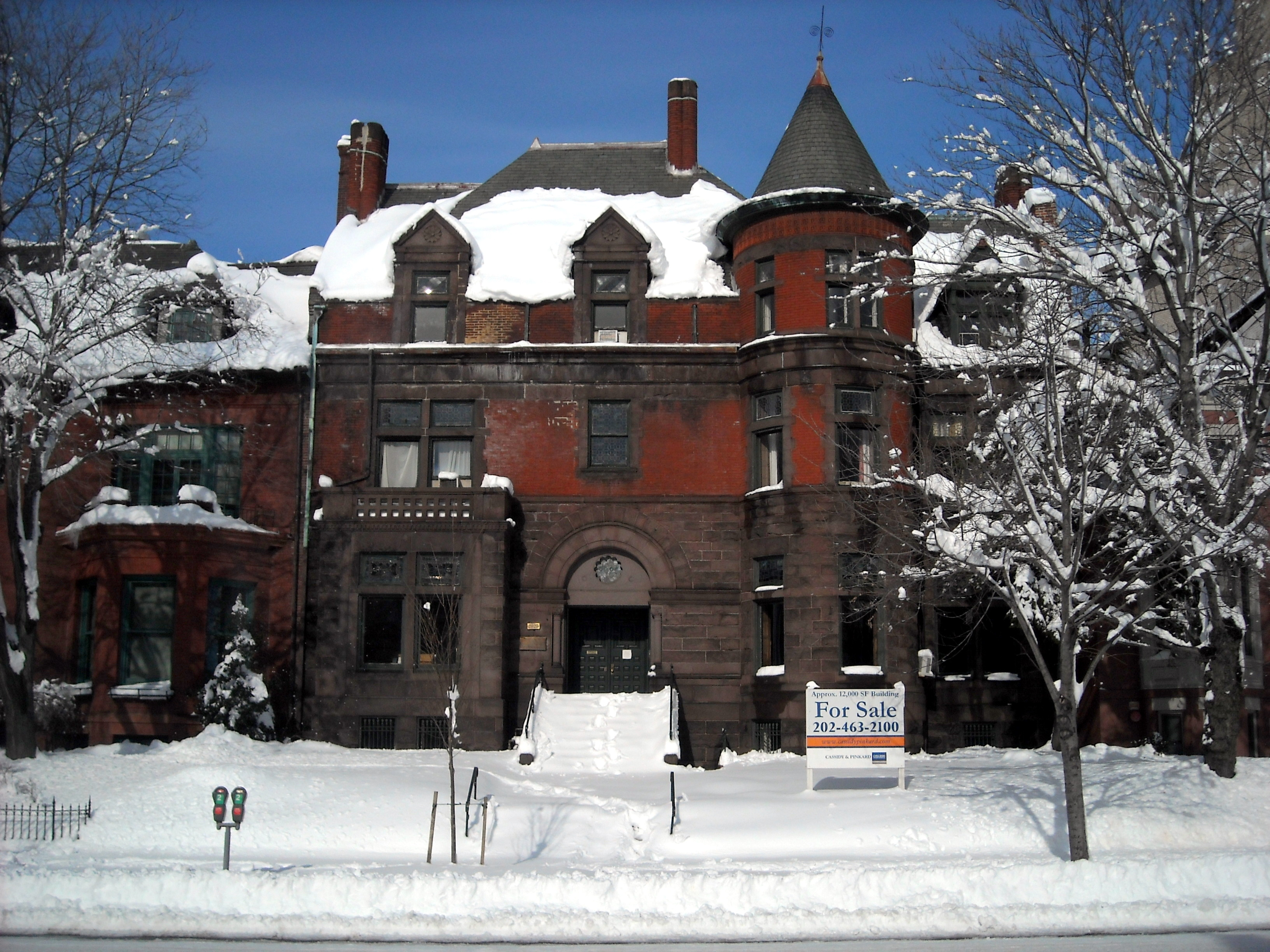 The Samuel M. Bryan House (former headquarters for the Church of the Saviour), located at 2025 Massachusetts Avenue, N.W., in the Dupont Circle neighborhood of Washington, D.C., following the North American blizzard of 2010.